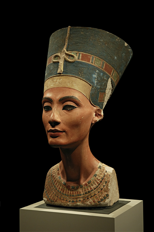 Bust of queen Nefertiti in the Neues Museum, Berlin